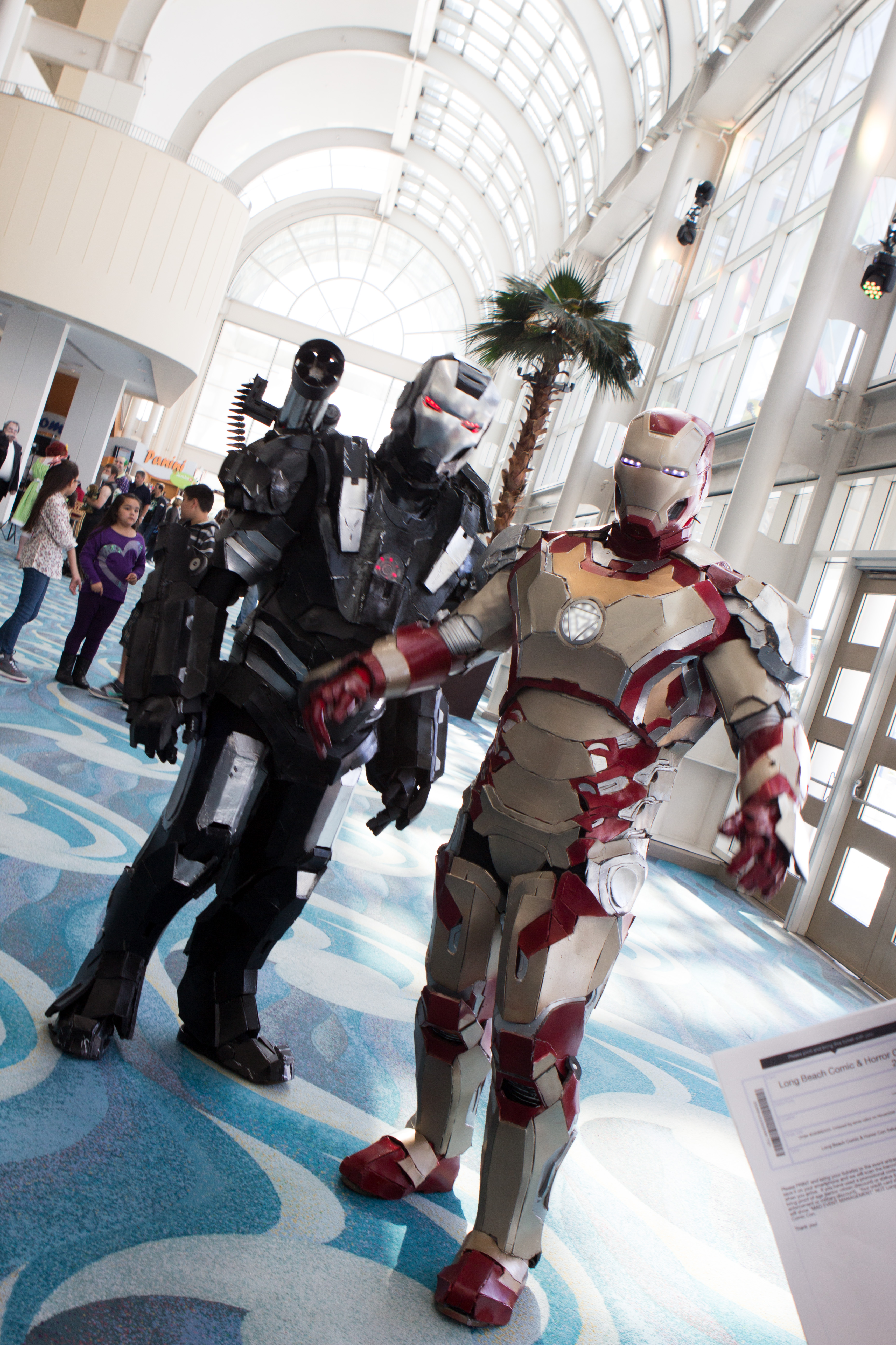 War Machine and Iron Man Cosplay at Long Beach Comic Con 2013.